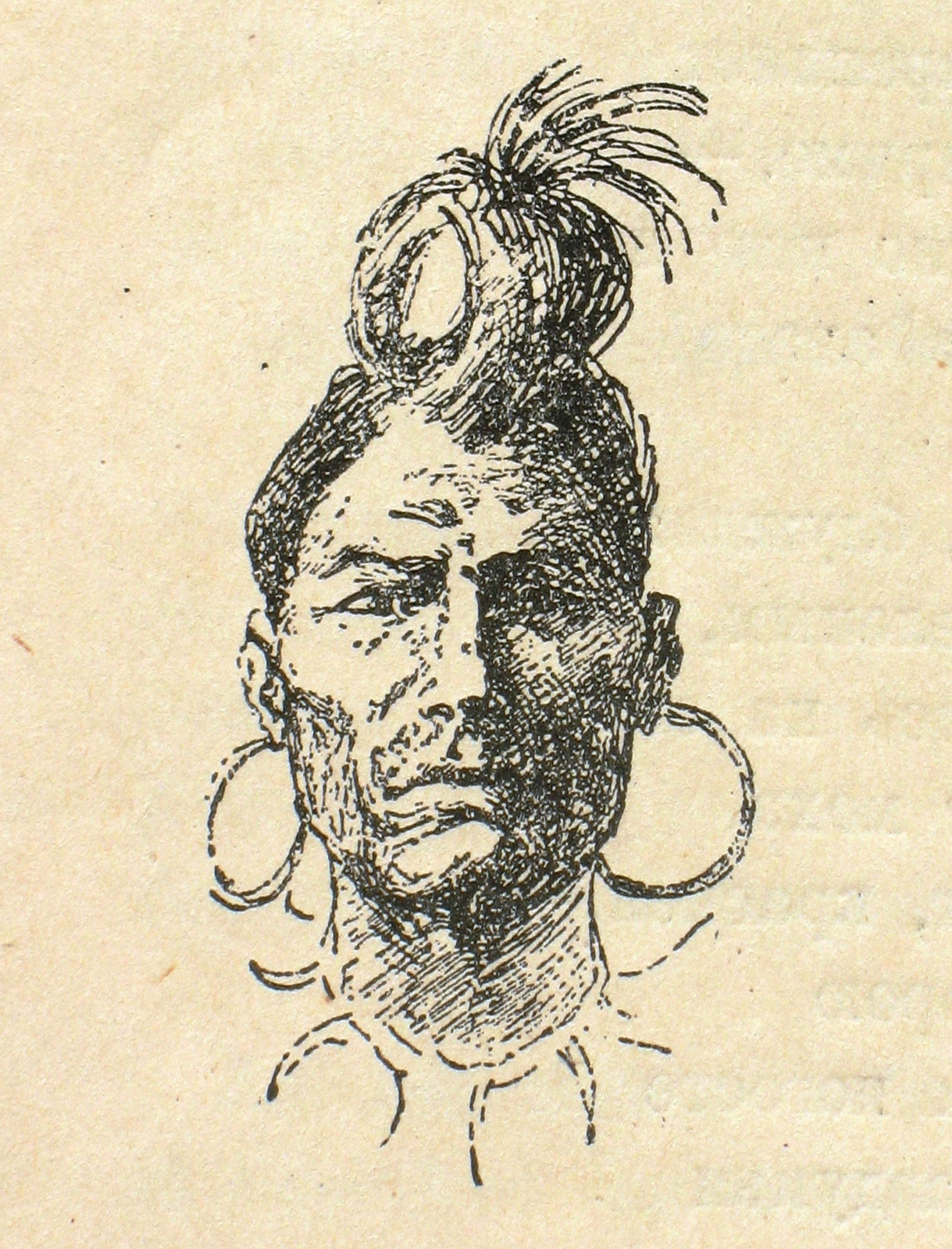 Henry Wadsworth Longfellow, The Song of Hiawatha, Moscow, 1931. Published by OGIZ.